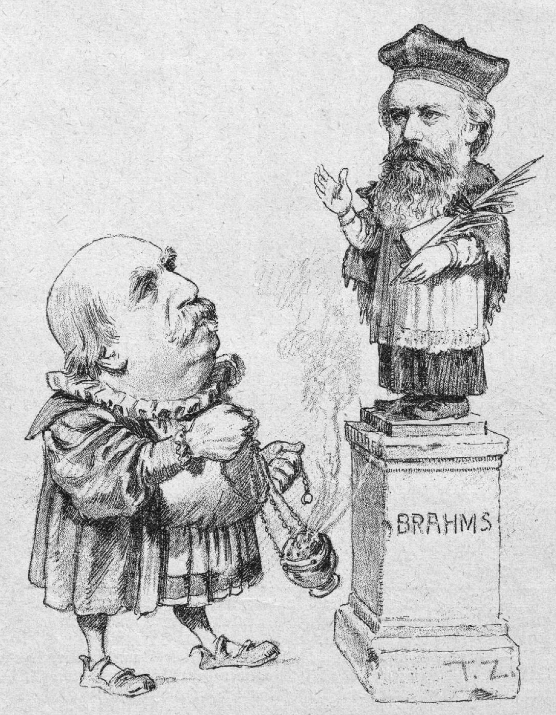 Caricature by T. Z.: Eduard Hanslick swings the censer to Johann von Pomuk Zum Titel der Karikatur: siehe / To the title of the cartoon